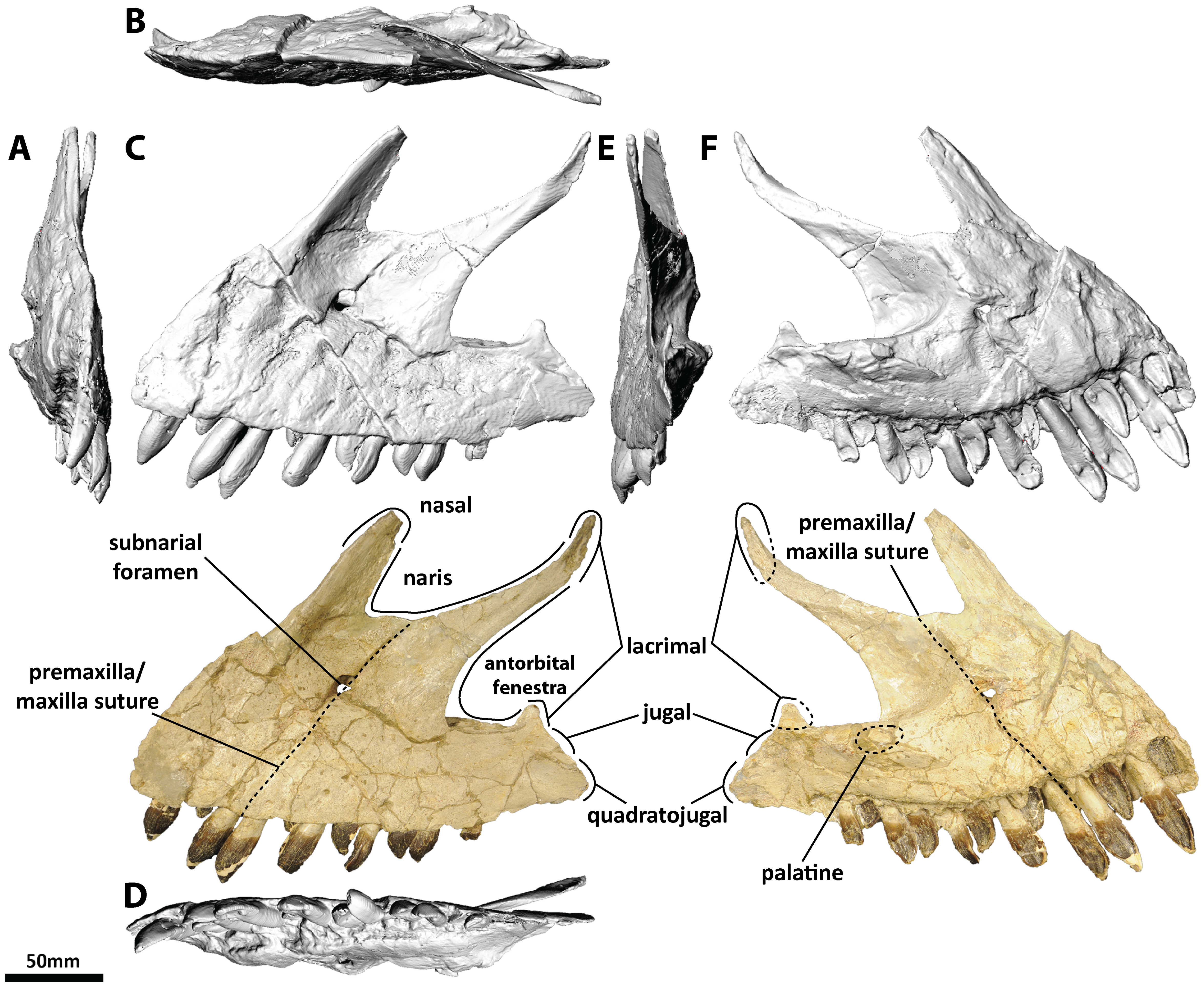 Left premaxilla and maxilla (PMU 24705/1a [formerly PMU R 233 a]) of Euhelopus zdanskyi in rostral (A), dorsal (B), left lateral (C), ventral (D), caudal (E), and medial (F) views. Note the distinctive buttresses on the lingual side of the teeth, located near the base of the crown.